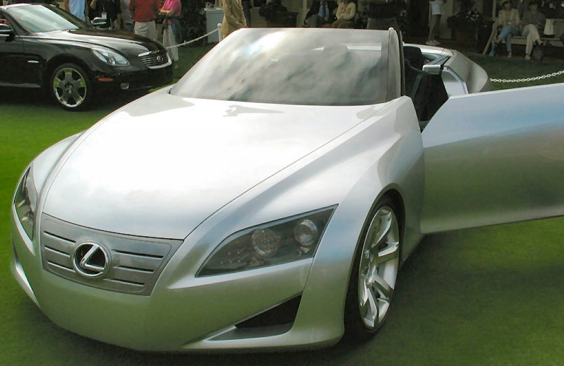 Lexus LF-C at the 2004 Pebble Beach Concours d'Elegance